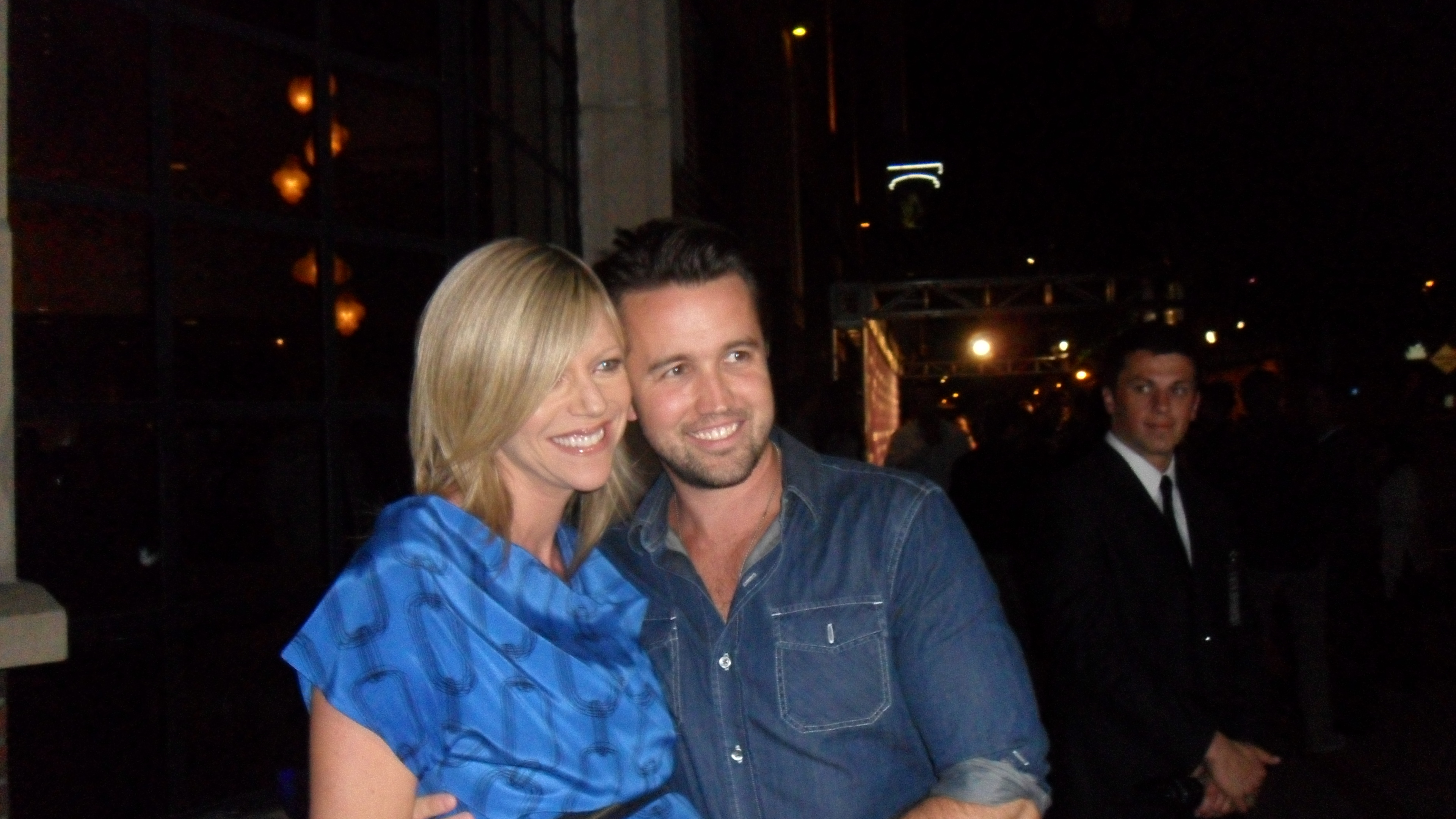 Comic Con 2010